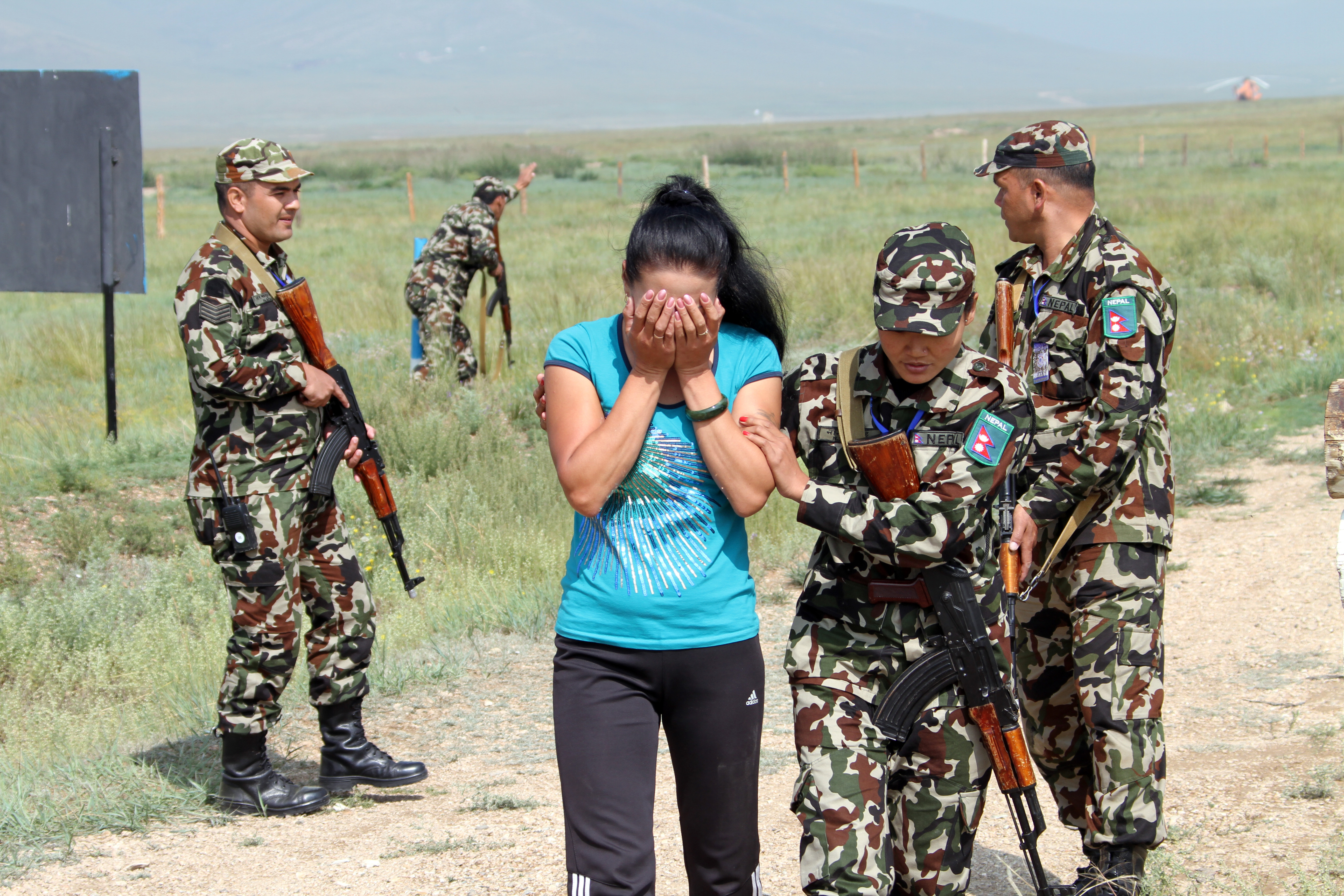 Nepalese Army Lance Cpl. Nanu Tamang, with the Birendra Peace Operation Training Center, escorts a role player at the vehicle checkpoint training lane during Khaan Quest 2013 at Five Hills Training Area, Mongolia, Aug. 7, 2013. Khaan Quest is an annual multinational exercise sponsored by the U.S. and Mongolia, and it is designed to strengthen the capabilities of U.S., Mongolian and other nations’ forces in international peace support operations.